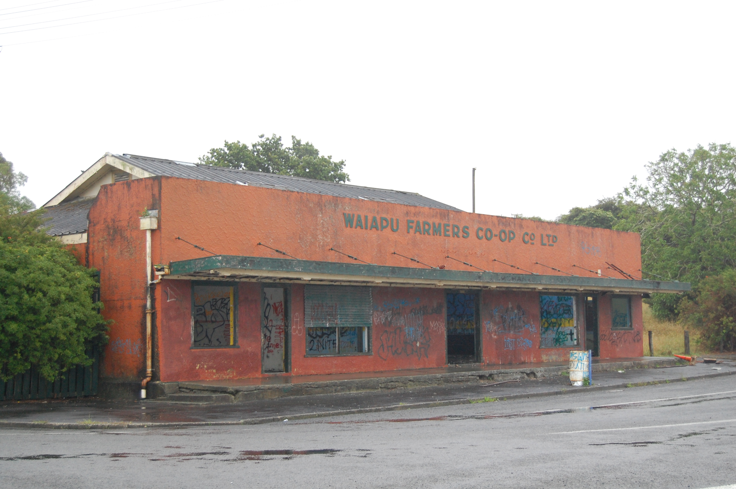 Village Tikitiki in the Gisborne region, New Zealand.